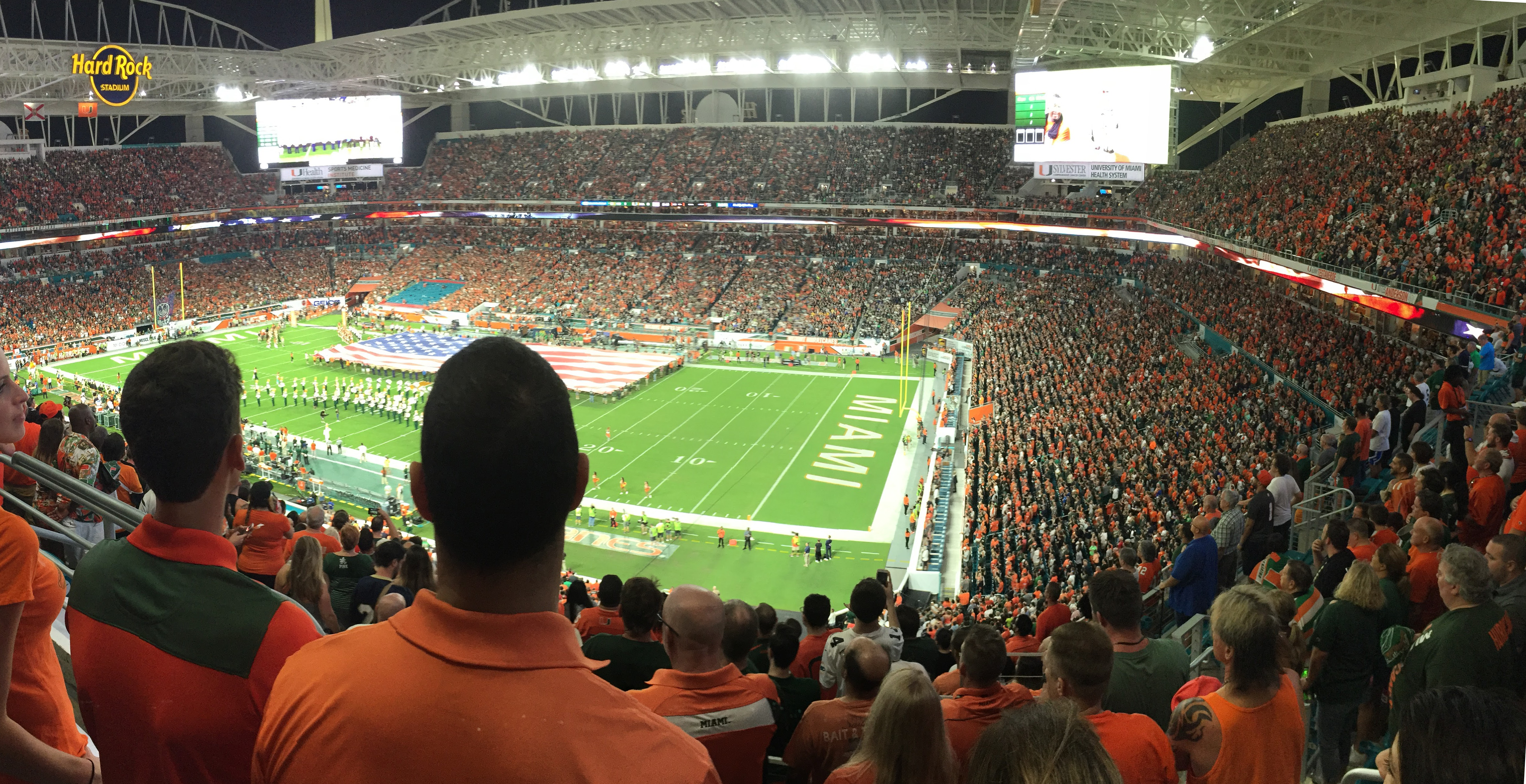 A panorama of Hard Rock Stadium